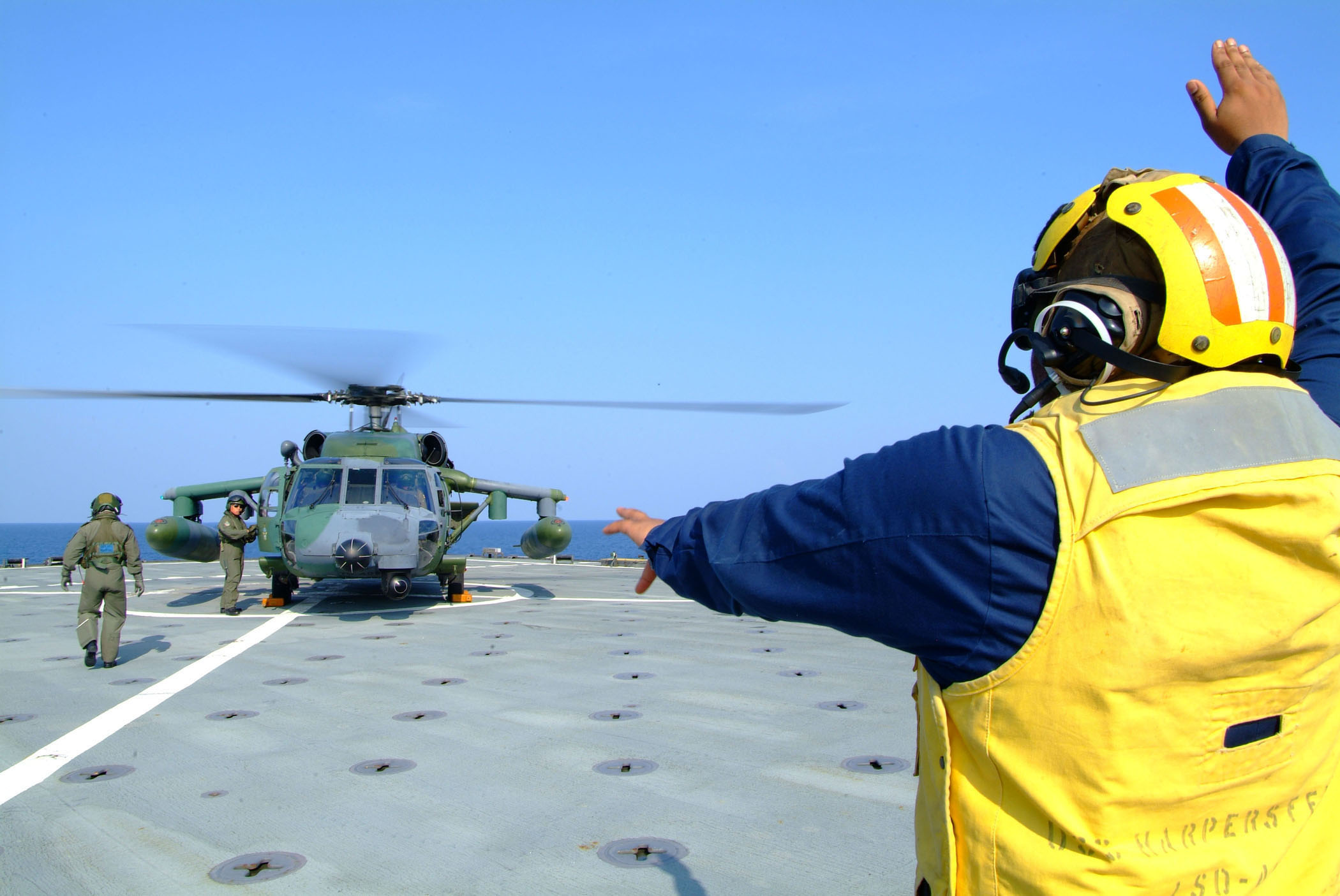 South China Sea (Aug. 9, 2005) - A Blackhawk helicopter from the Royal Brunei Air Force sits on the deck aboard the amphibious dock landing ship USS Harpers Ferry (LSD 49) as Landing Signal Enlisted (LSE) Storekeeper Seaman Deandre Callahan maintains communications with the pilot during deck landing qualifications. The qualifications are part of the Brunei phase of Cooperation Afloat Readiness and Training (CARAT) 2005. CARAT is an annual series of bilateral military training exercises with several Southeast Asian nations designed to enhance interoperability of the respective sea services. U.S. Navy photo by Journalist 2nd Class Brian P. Biller (RELEASED)